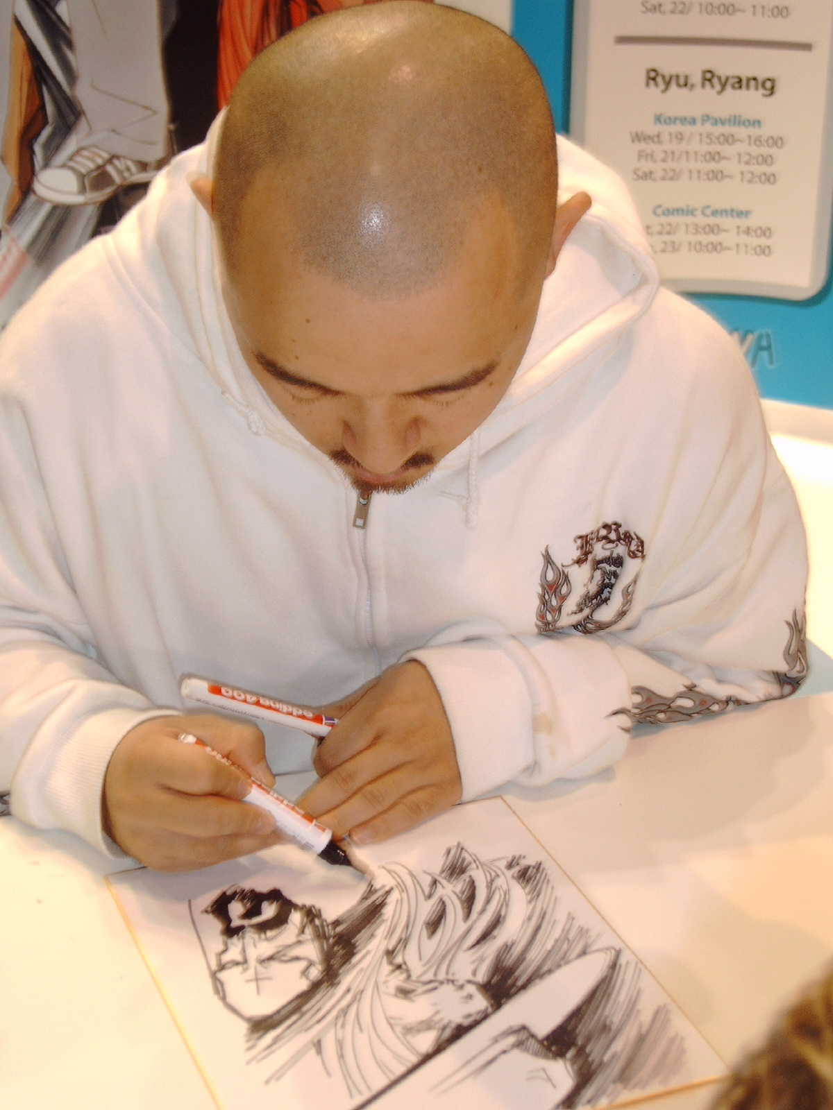 Korean Manhwa artist Hyung Min-woo (형민우)